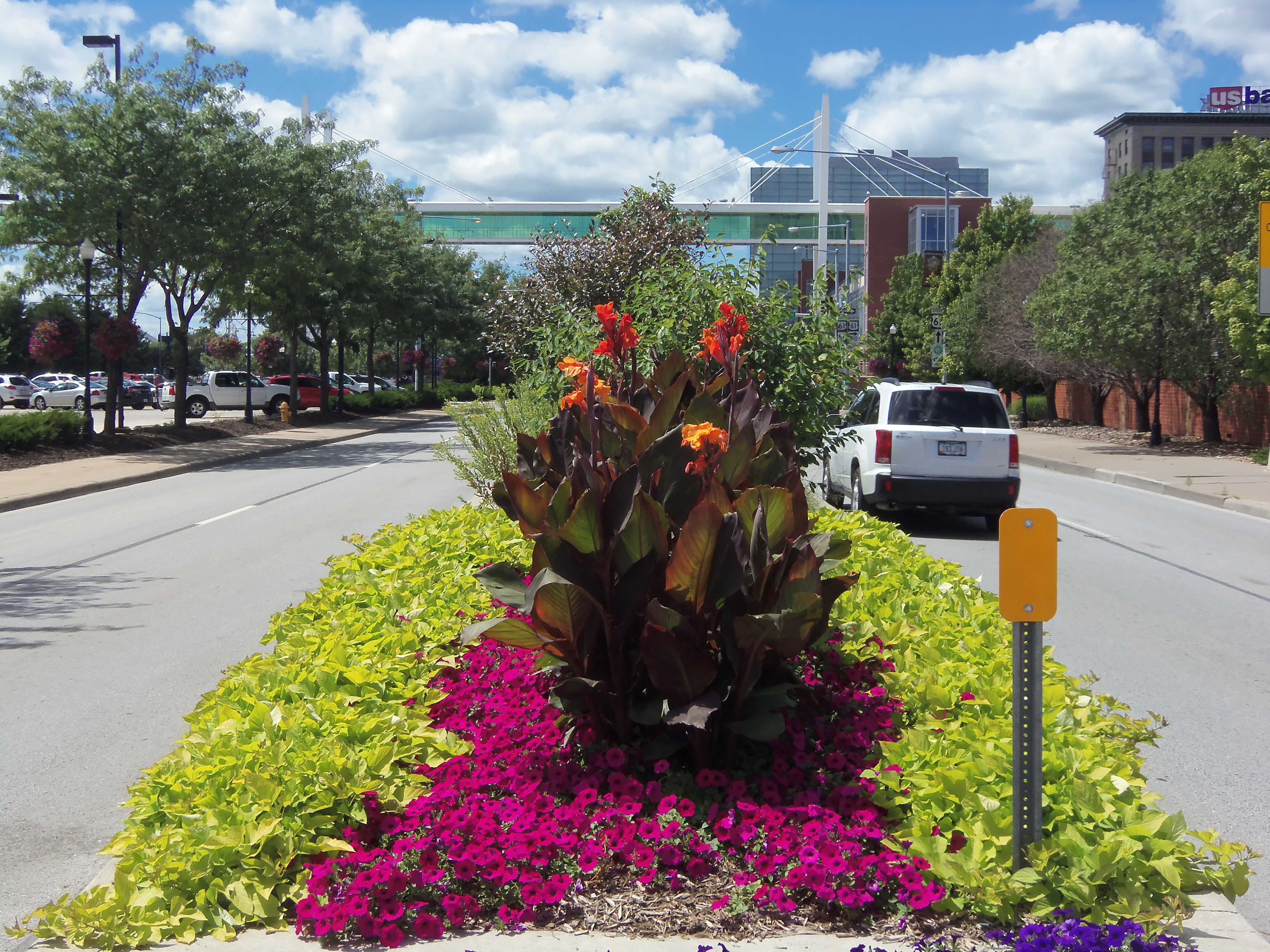 The median in River Drive in Downtown Davenport, Iowa.